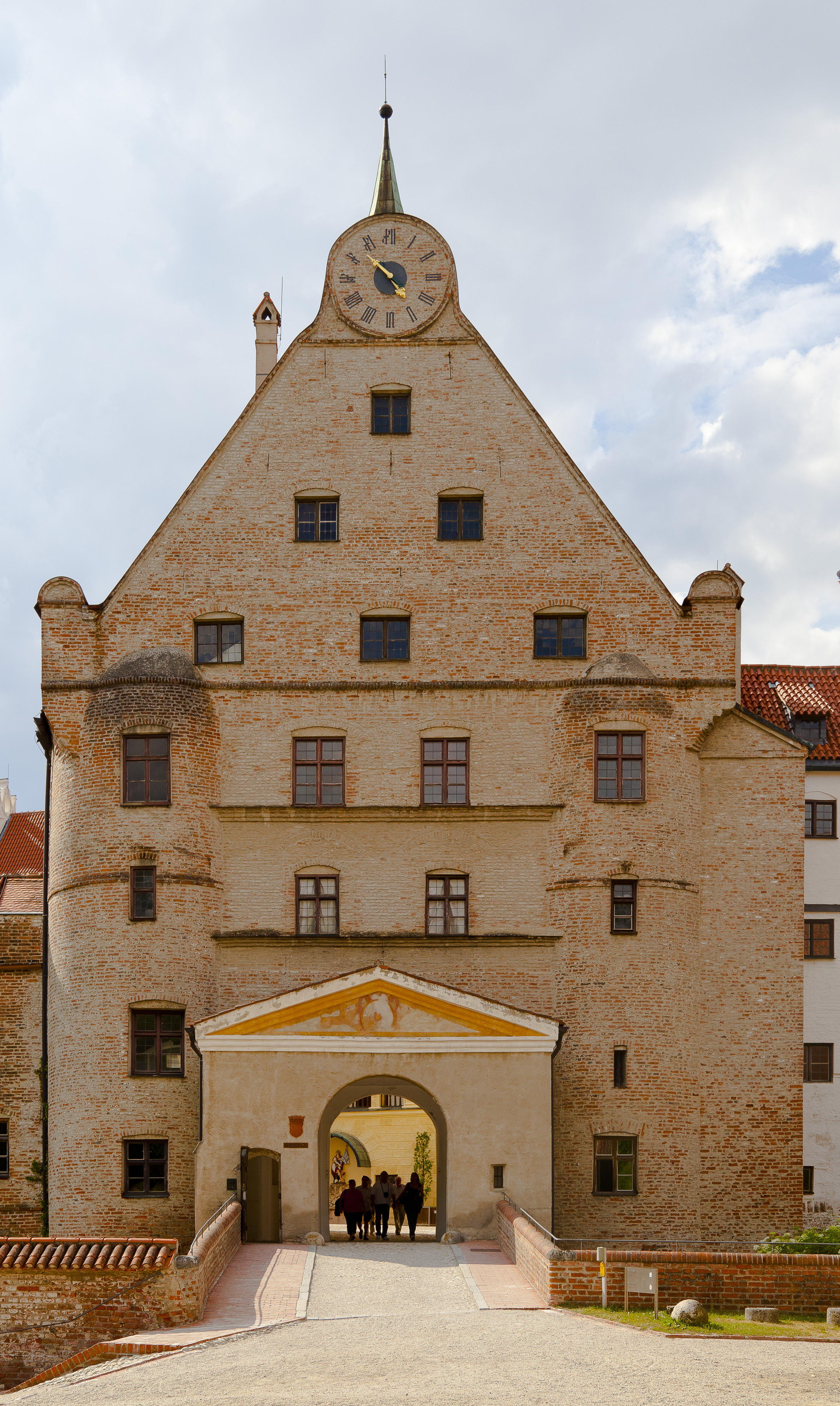 Trausnitz castle, Landshut, Germany